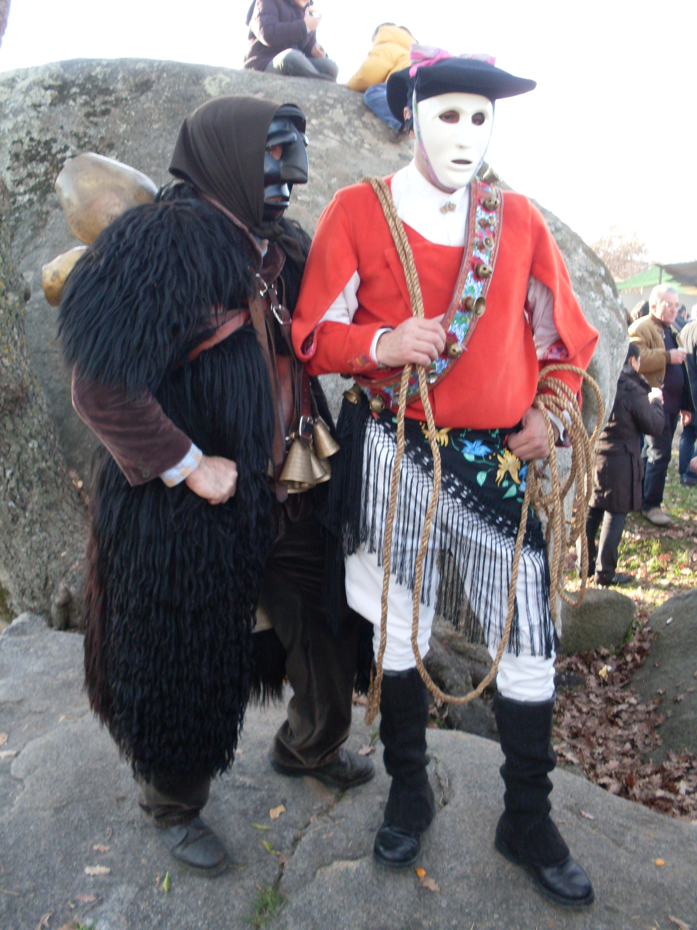 Mamuthone e Issohadore of Mamoiada